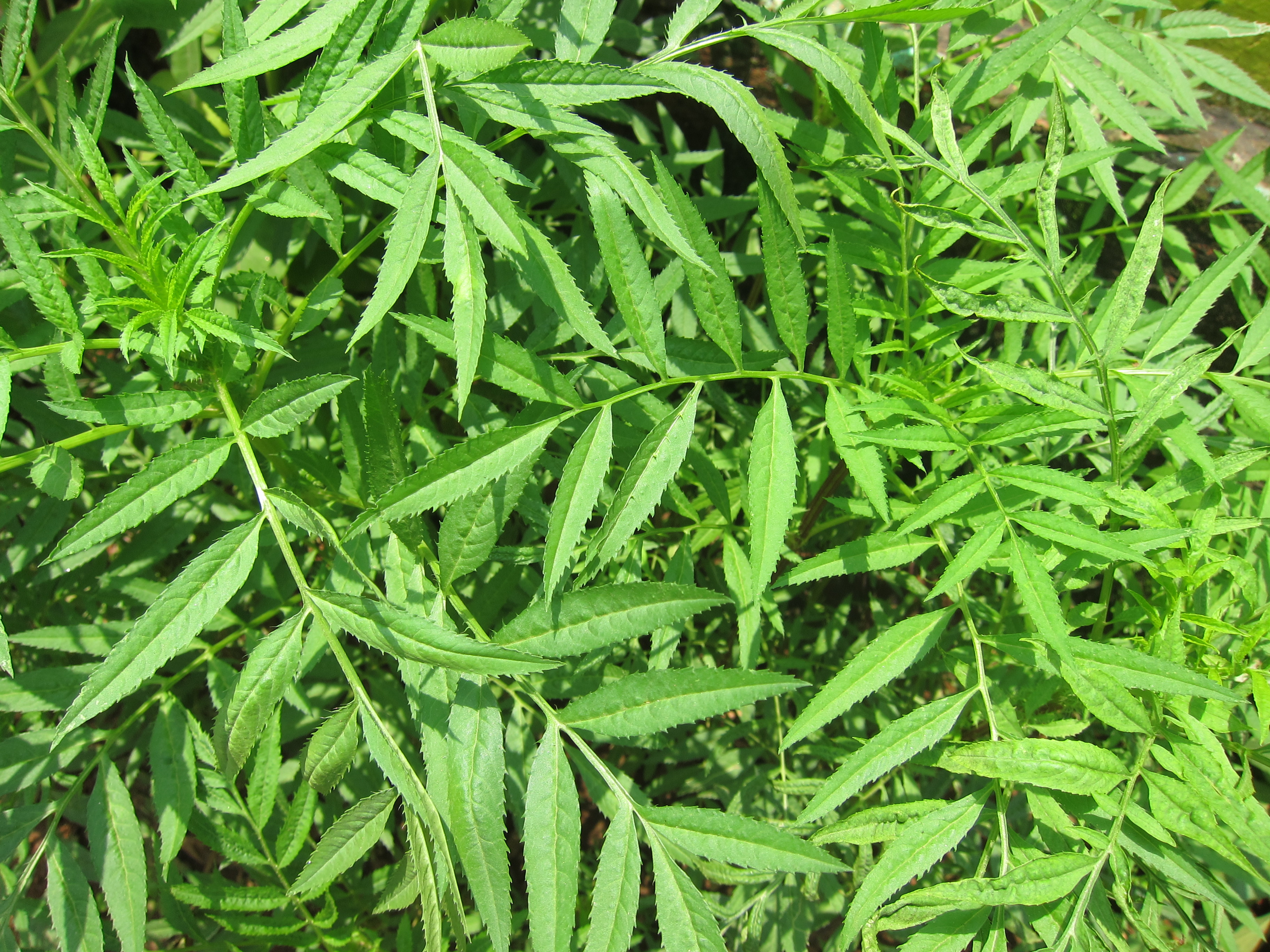 Marigold , Tagetes Erecta ചെട്ടിമല്ലി ചെണ്ടുമല്ലി ജണ്ടുമല്ലി ബന്തി കൊണ്ടപ്പൂവ് ചെട്ടിപ്പൂ